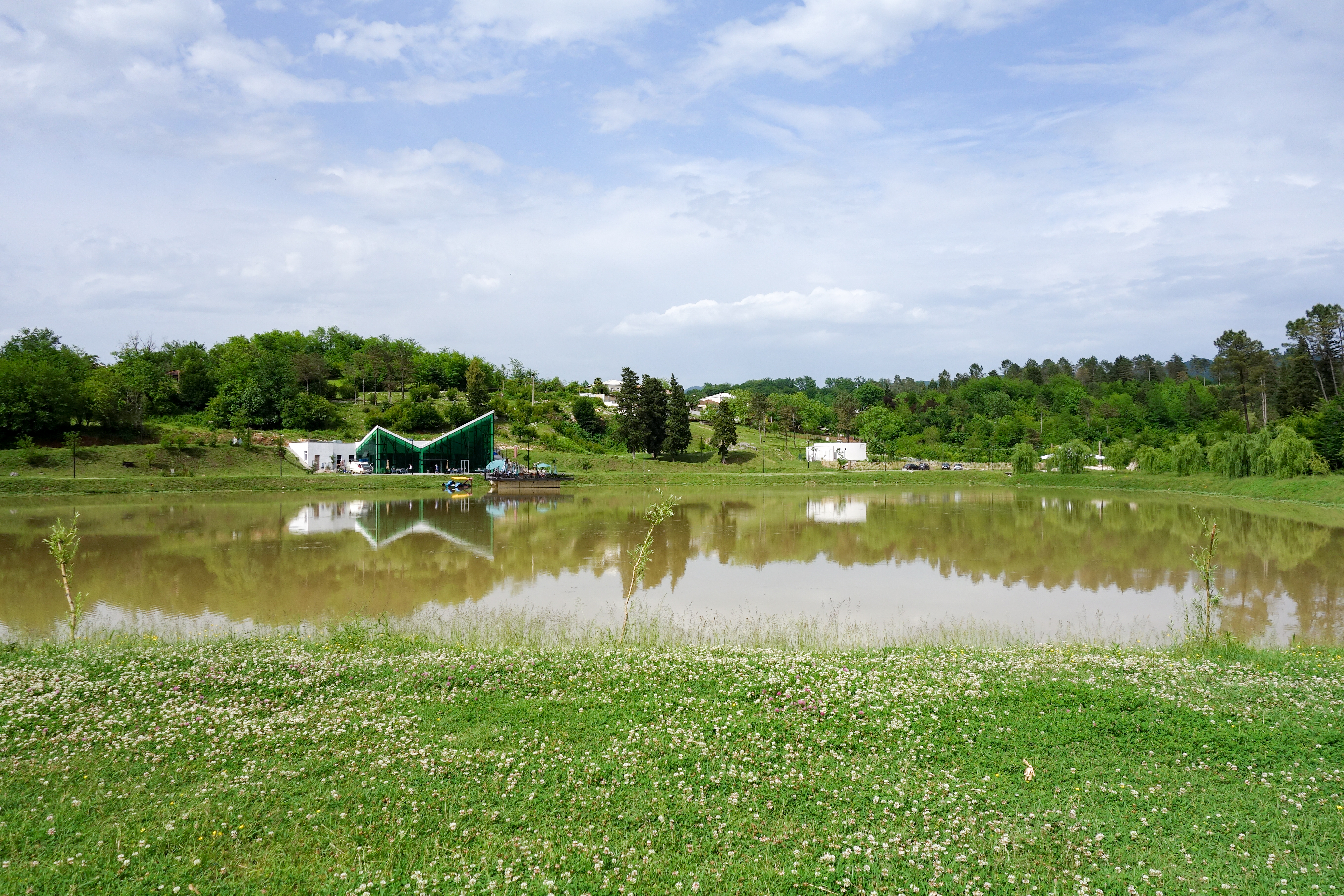 Tsivi Lake in Tskaltubo, Imereti, Georgia